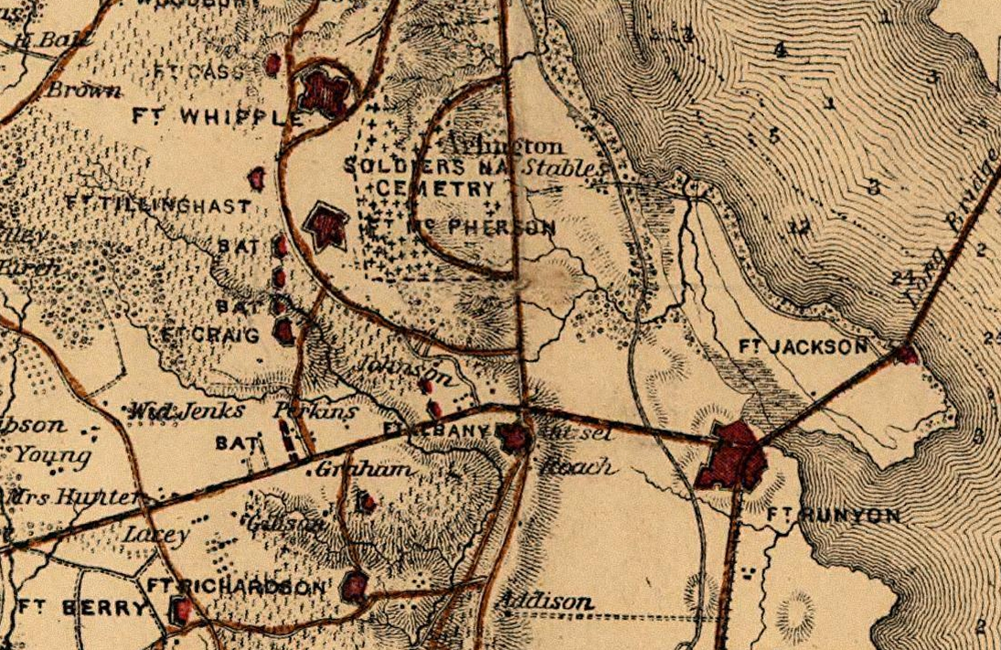 Map of American Civil War defenses of Washington, D.C. in 1865. US Government document, War Department (1865). This is a retouched picture, which means that it has been digitally altered from its original version. Modifications: Image is selection, highlighting Fort Craig and surrounding area.